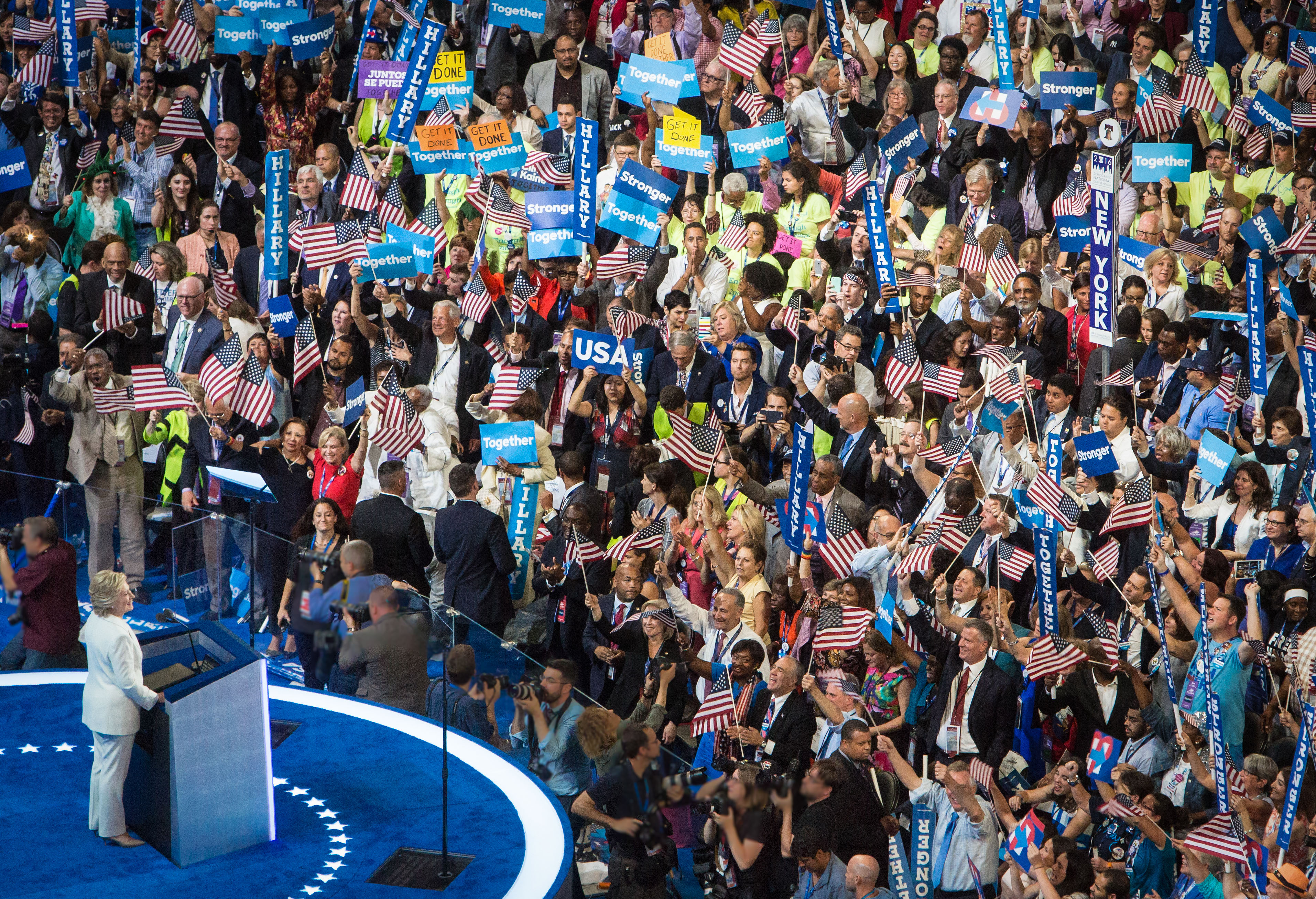 Hillary Clinton Speech at Democratic National Convention (July 28, 2016)